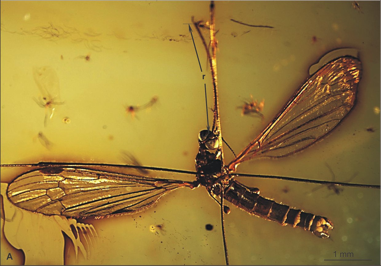 Morphology of Elephantomyia (E.) pulchella, No. 1195–5 (male): A. body, latero-ventral view